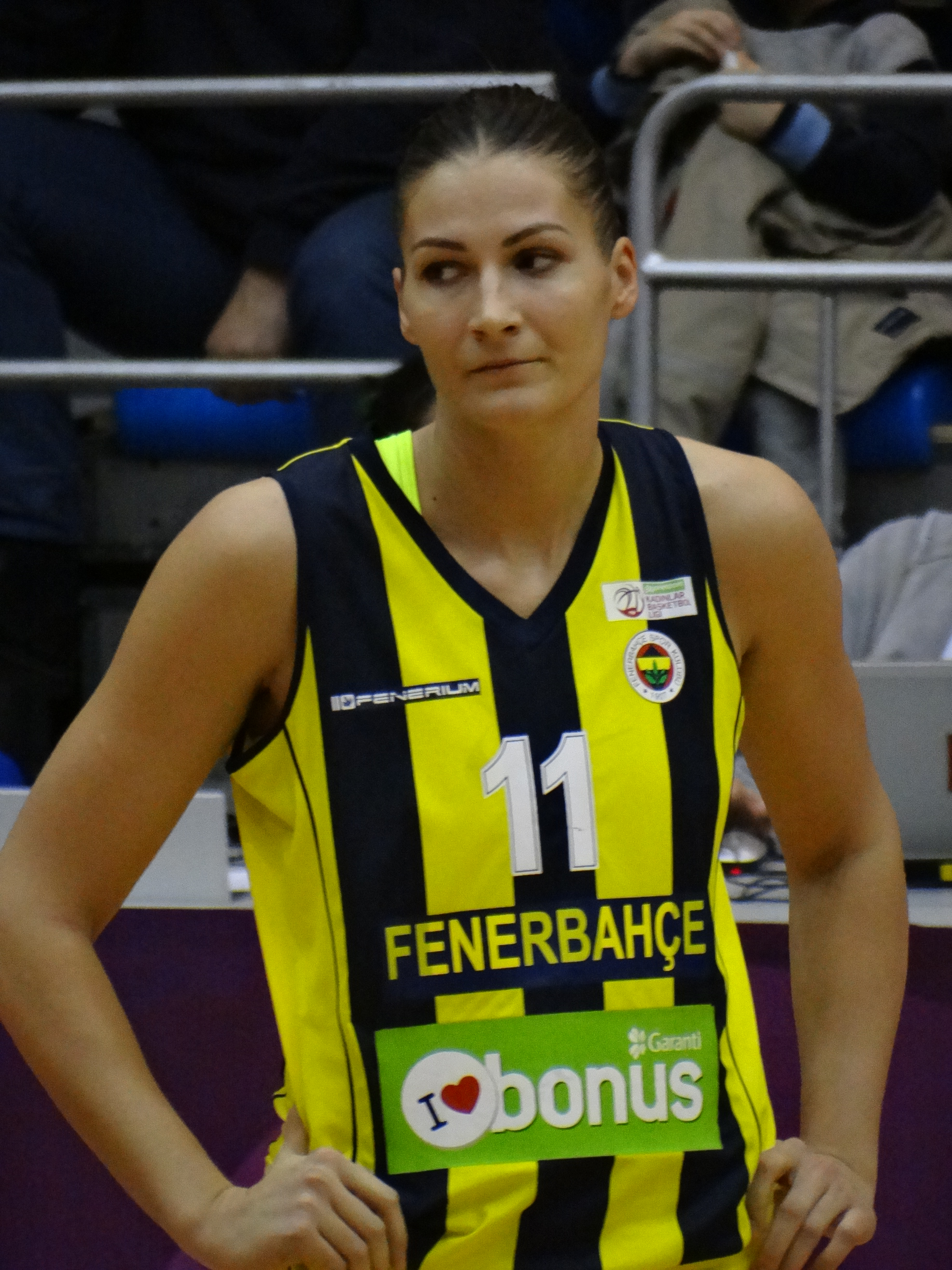 Anastasiya Verameyenka Fenerbahçe Women's Basketball vs Mersin Büyükşehir Belediyesi (women's basketball) TWBL 20180121